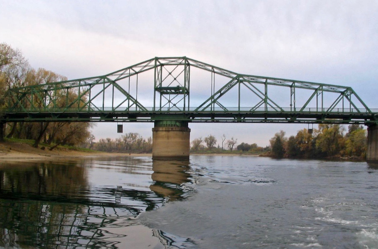 The Jibboom Street Bridge, across the Sacramento River within the city Sacramento, is a 1931 steel truss bridge with a swing-span section.